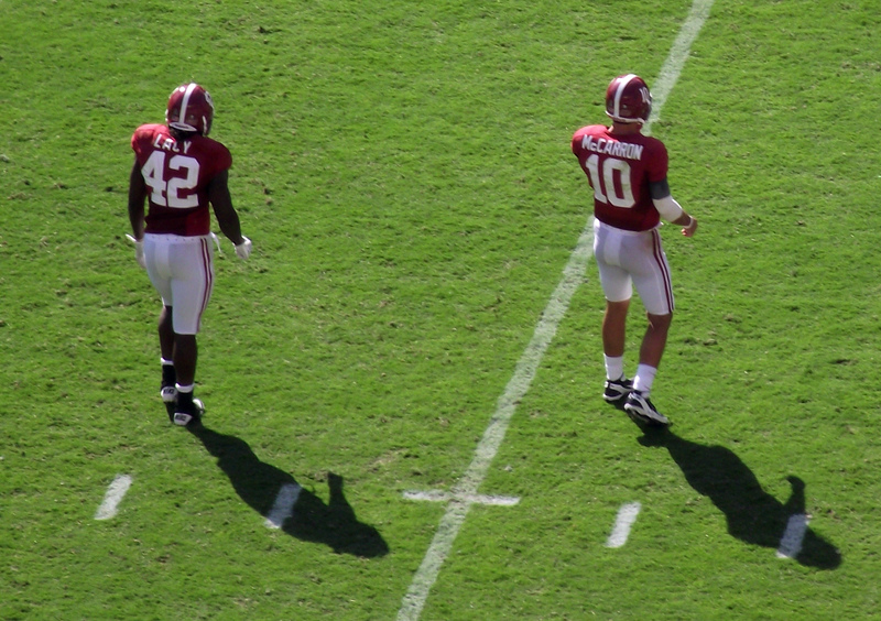 Alabama running back Eddie Lacy and quarterback AJ McCarron during a football game